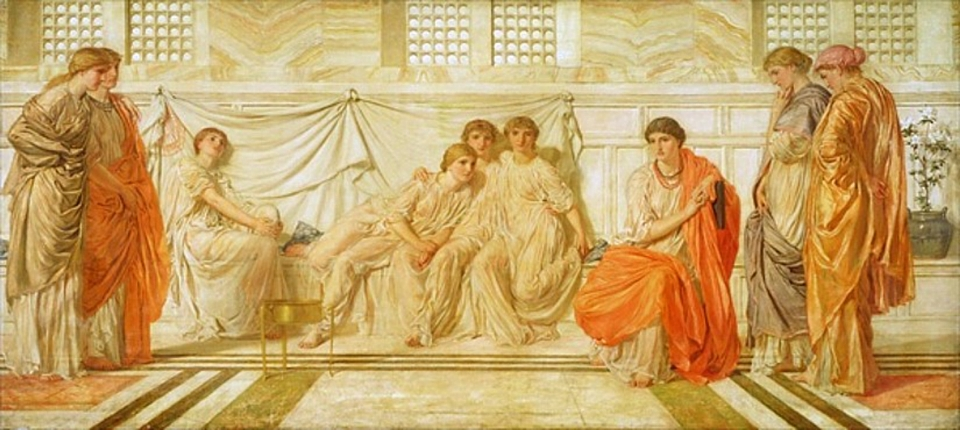 The Shunamite relating the Glories of King Solomon to her Maidens (Walker Art Gallery Liverpool)